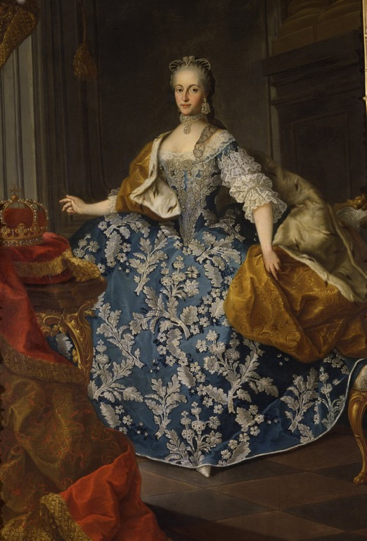 Portrait of Maria Josepha of Bavaria (1739-1767), Holy Roman Empress